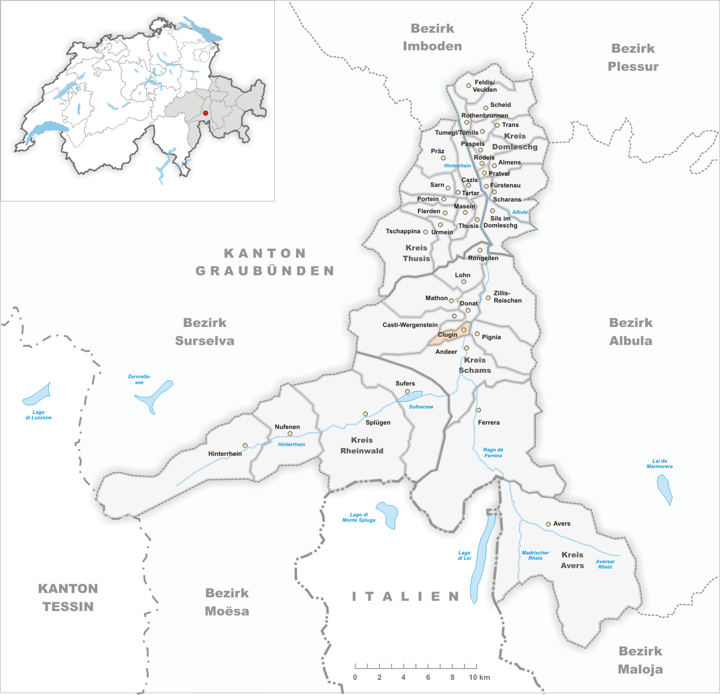 Municipality Clugin